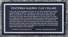 Descriptive plaque on original railway shed of Pentewan Railway St Austell England